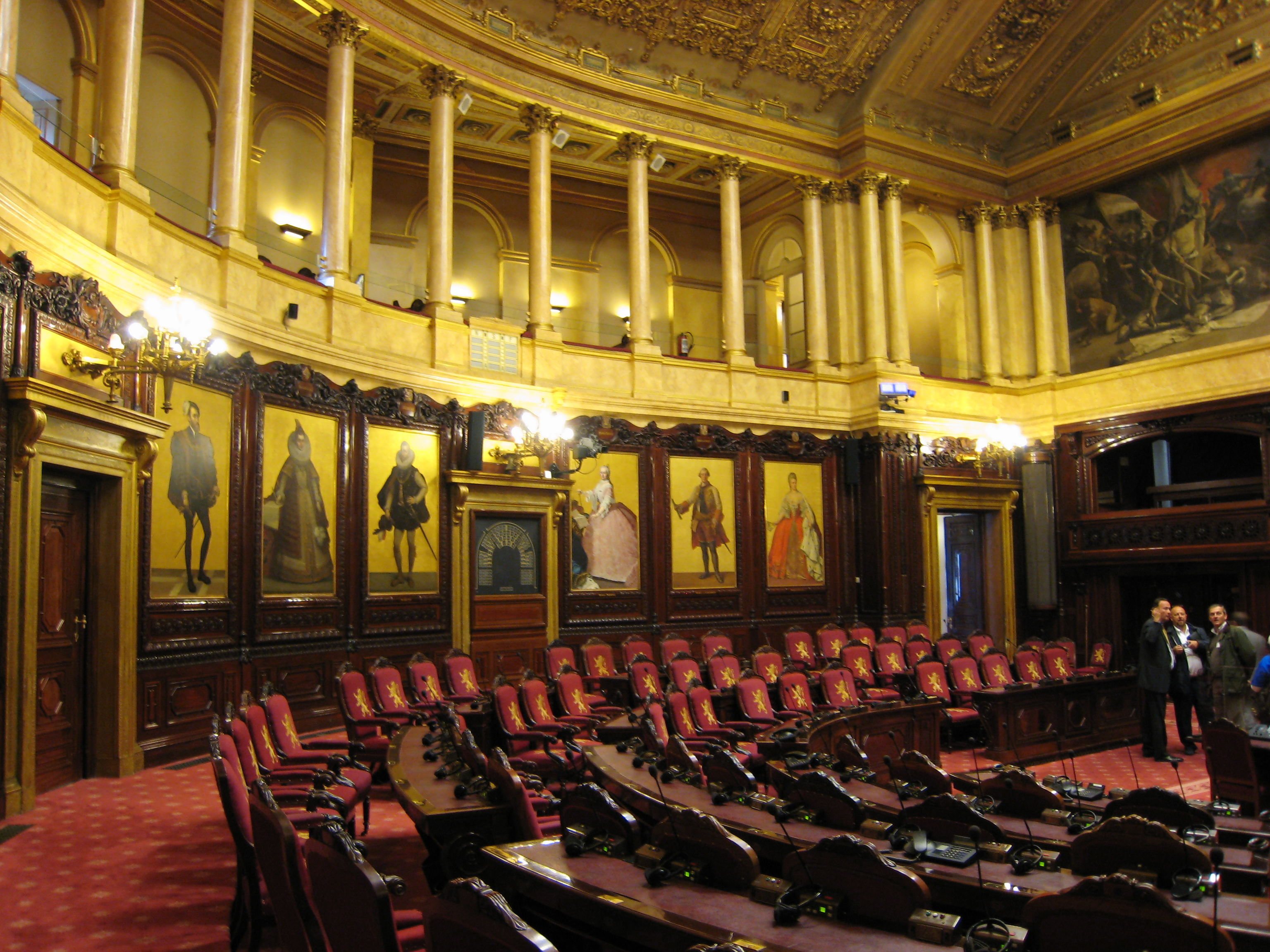 Inside view of the Senate of Belgium